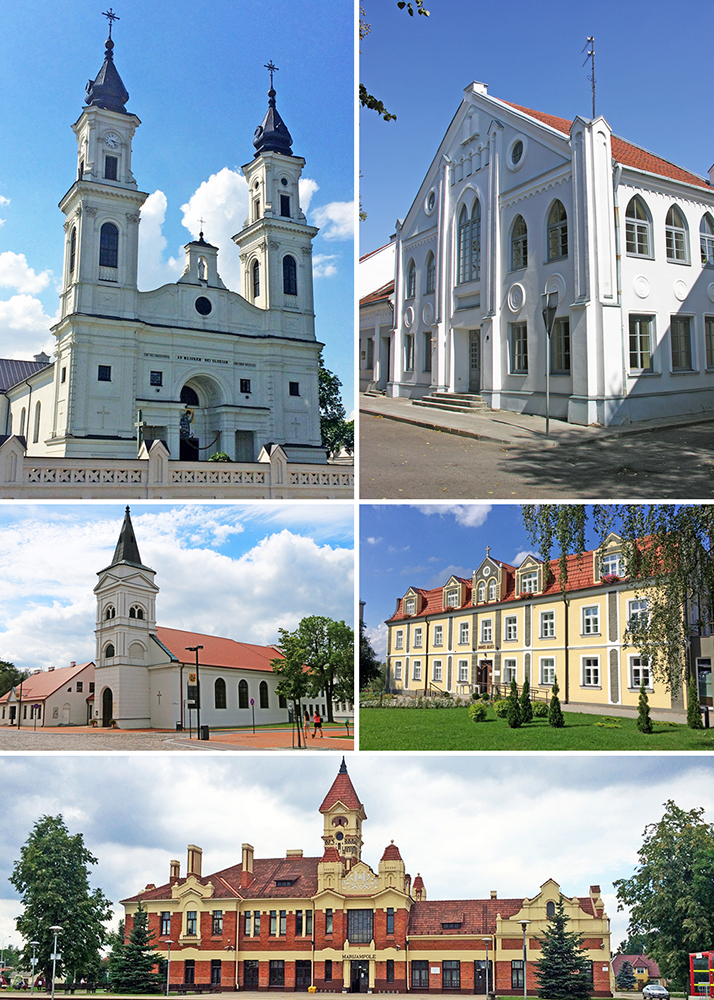 Marijampole view